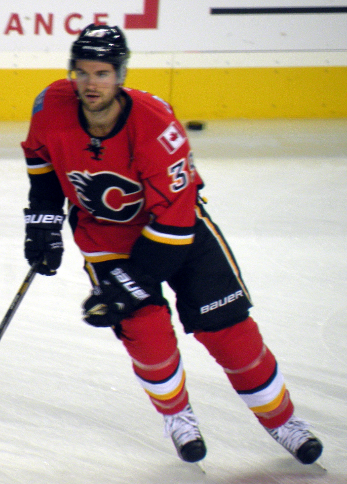 Calgary Flames forward TJ Galiardi prior to a National Hockey League game in Calgary.